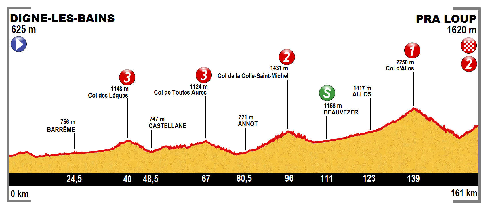 Profile of the 17th stage of the Tour de France 2015